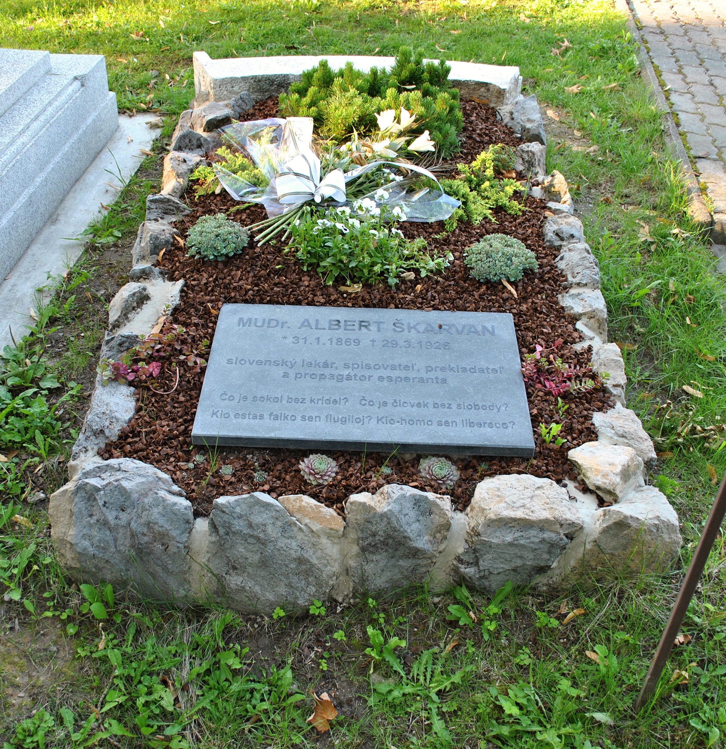 Liptovský Hrádok, Slovakia - grave of Albert Škarvan at the town cemetery